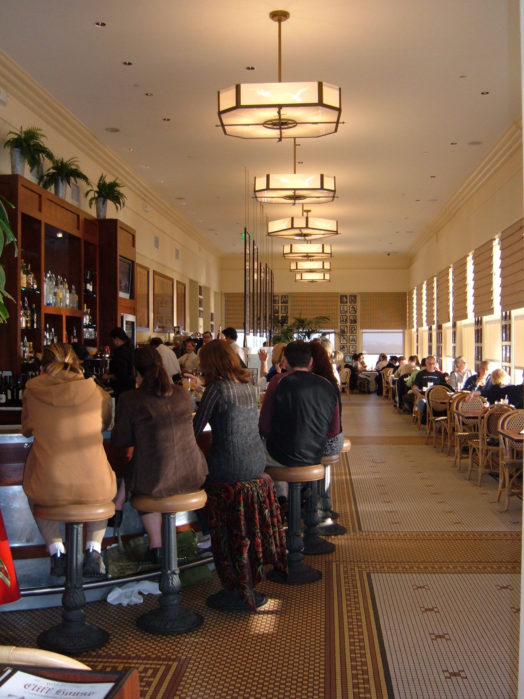 View of the bar area of The Bistro, the casual restaurant located in the Cliff House.